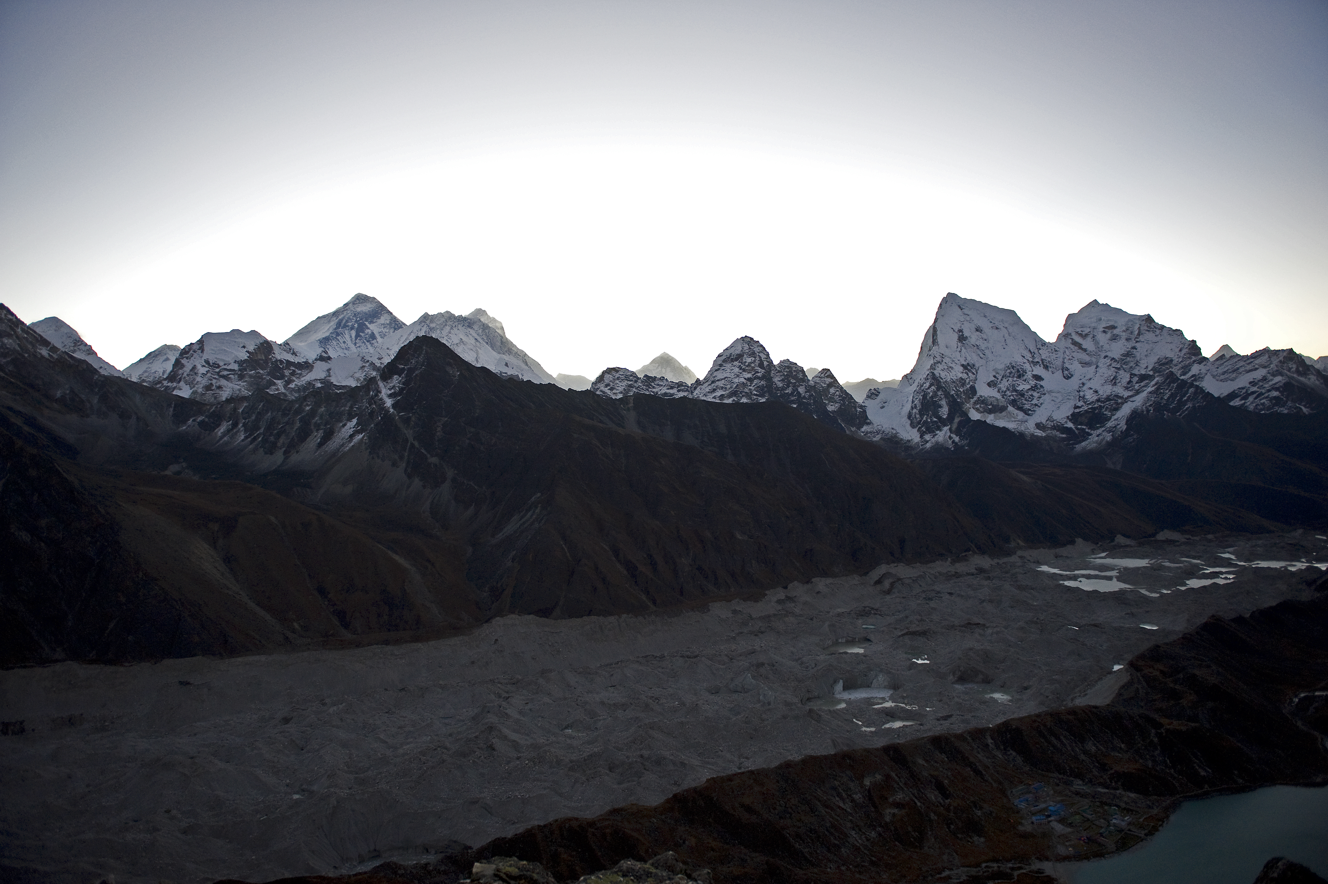 Sunrise view of Cholatse and Taboche with Everest, Nuptse, Lhotse, Makalu, Ngozumpa glacier and Gokyo